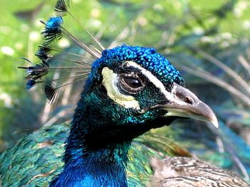 Head of Pavo cristatus.